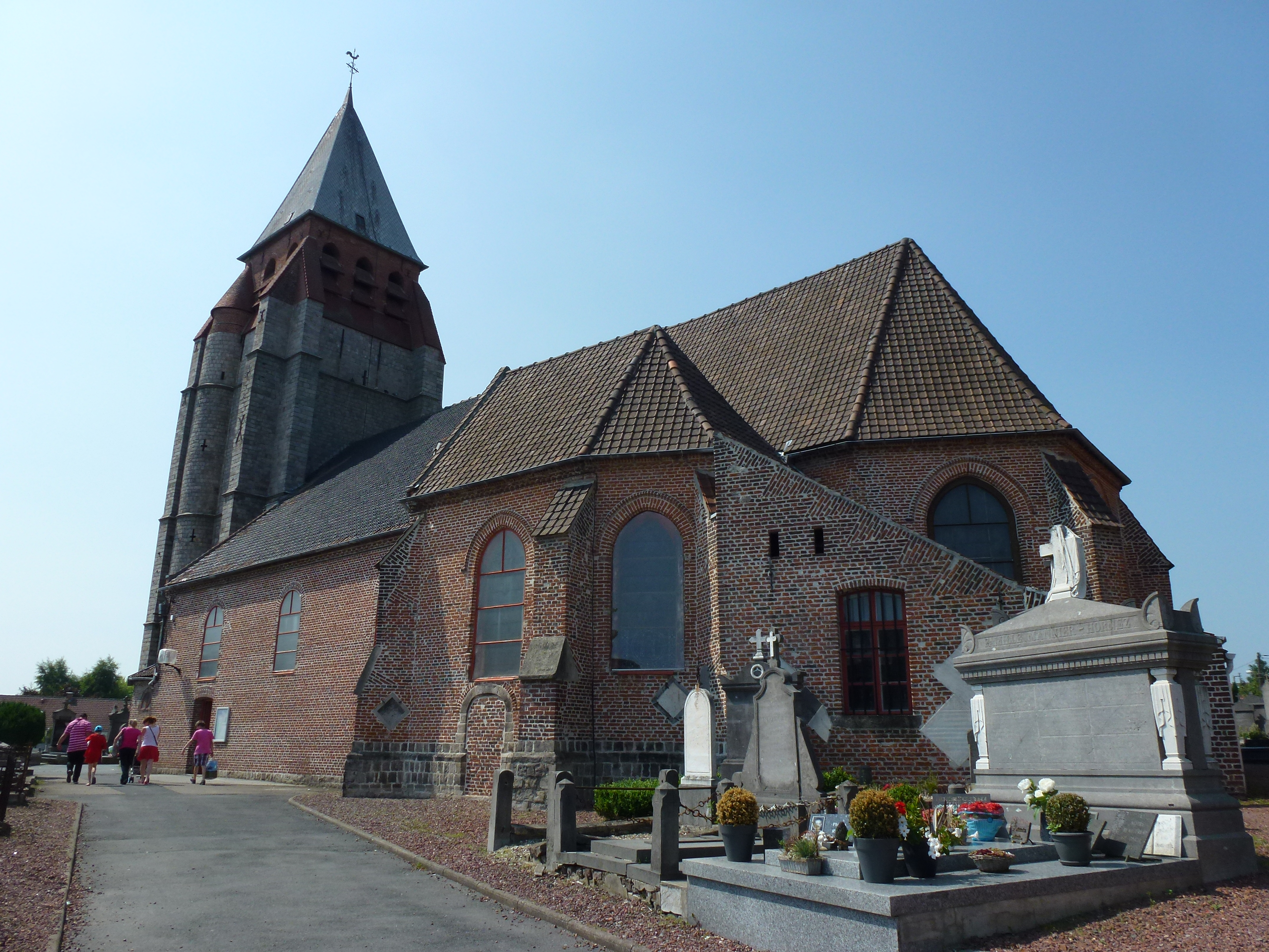 Raimbeaucourt (Nord, Fr) église, extérieur